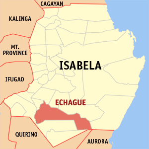 Map of Isabela showing the location of Echague